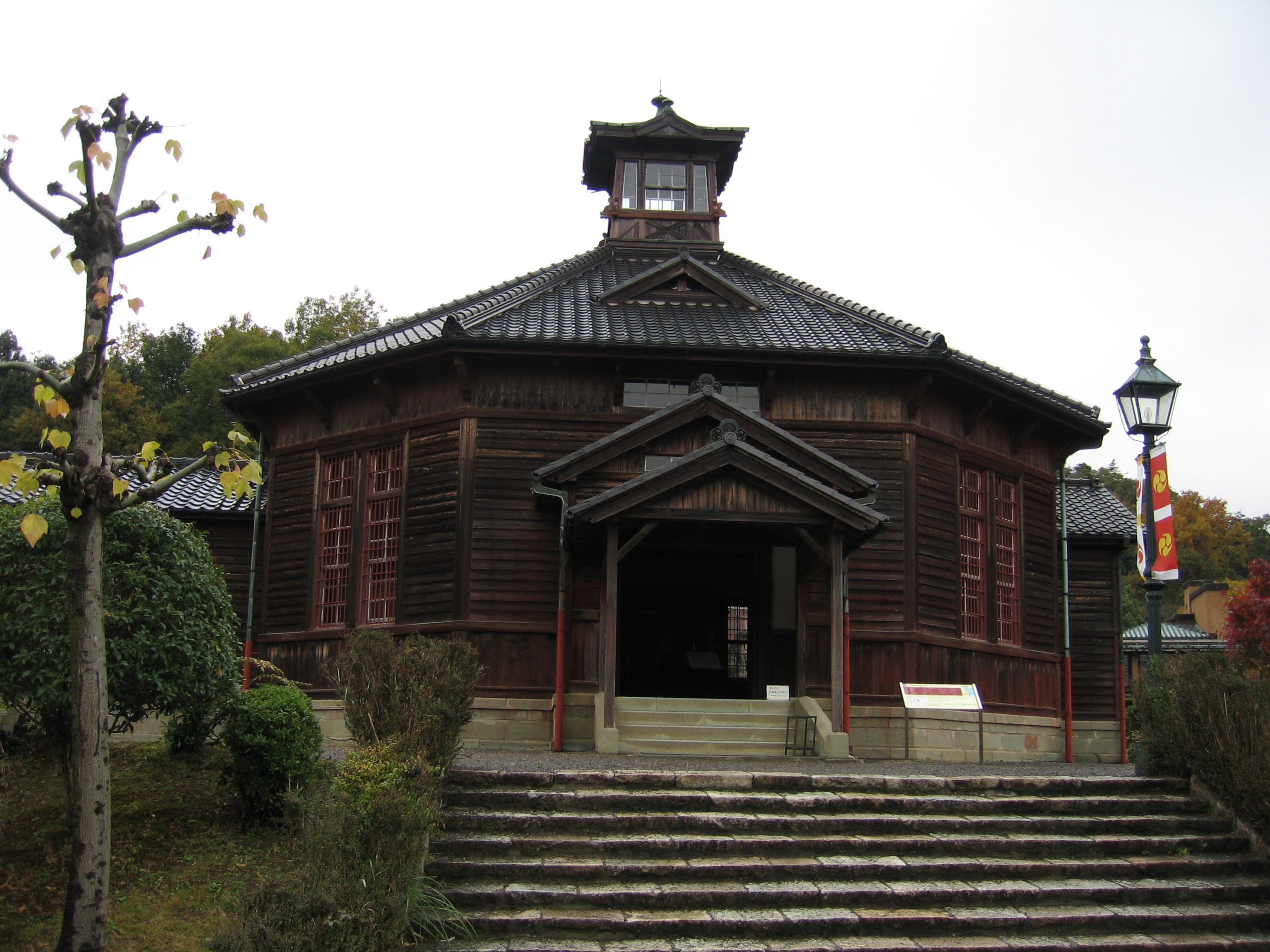 Meiji Mura - Inuyama near Nagoya